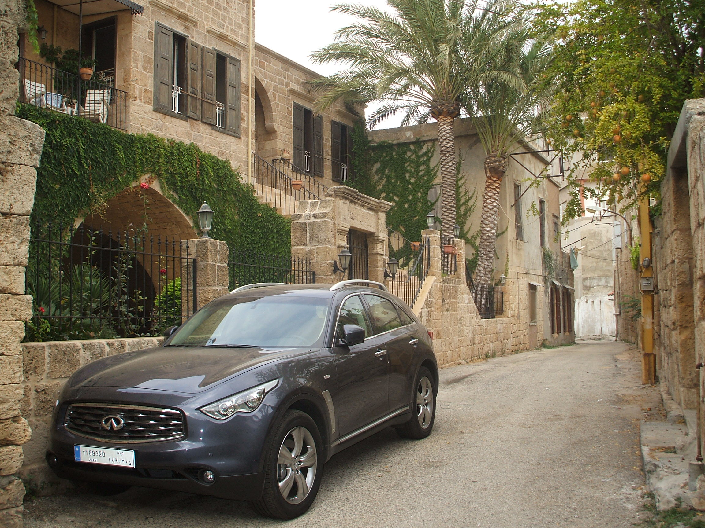 Street in Batroun's vieux quartier